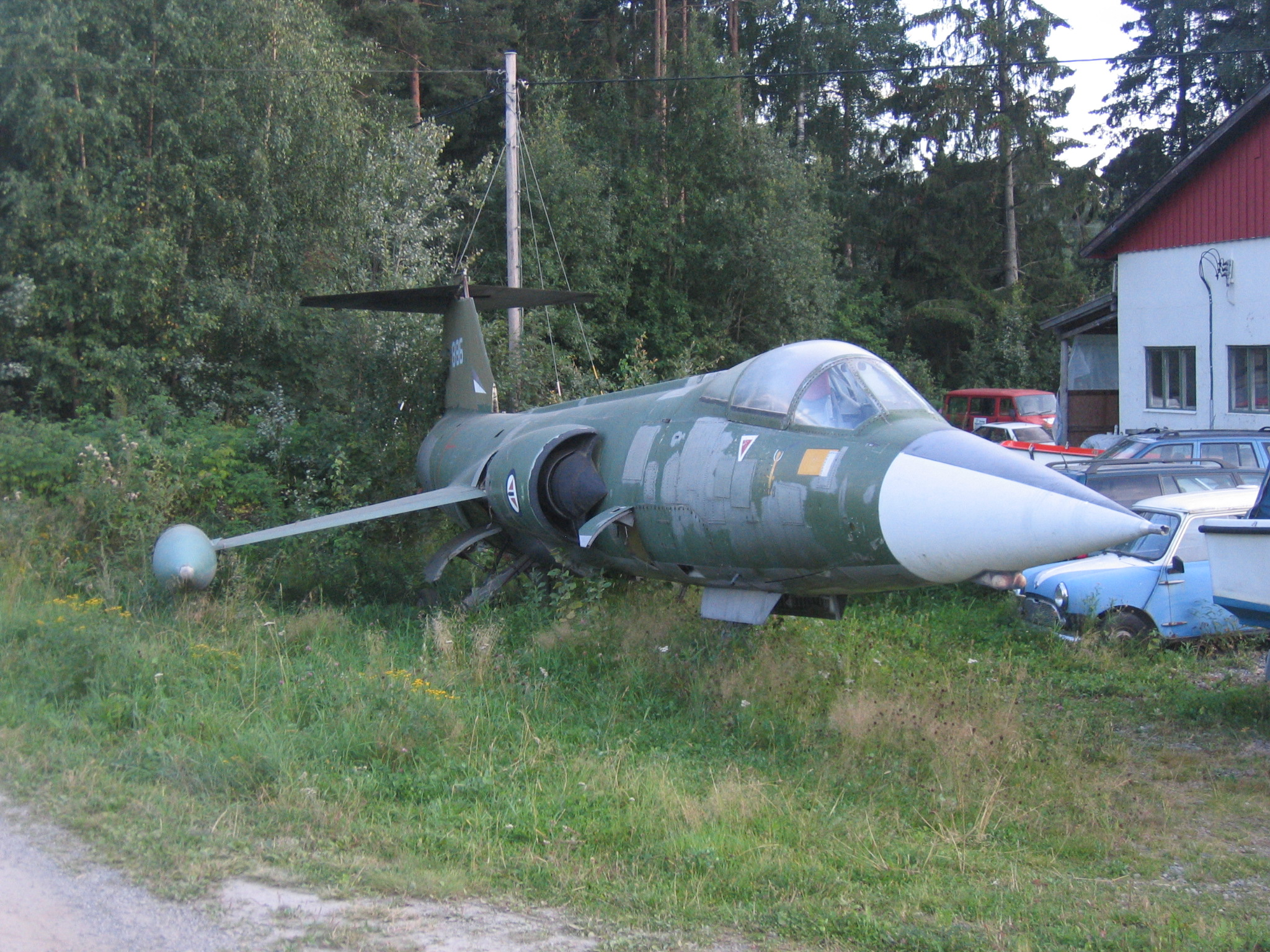 Canadair CF-104 Starfighter from the Royal Norwegian Air Force (RNoAF). #886, Sqn 334, S/N 1186.